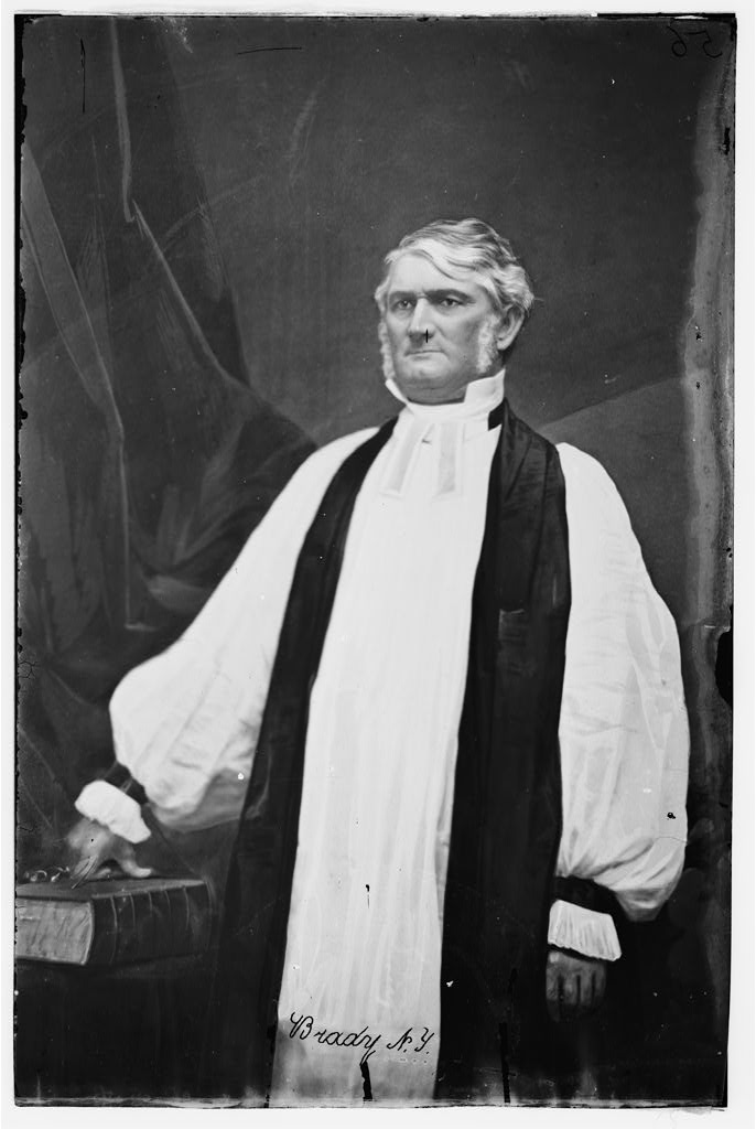 Gen. Leonidas Polk, C.S.A., the fighting bishop